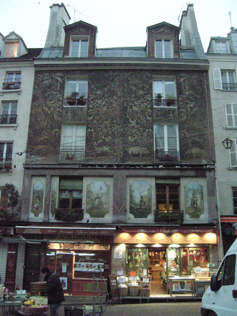 Paris 5e - 134 rue Mouffetard - immeuble décoré